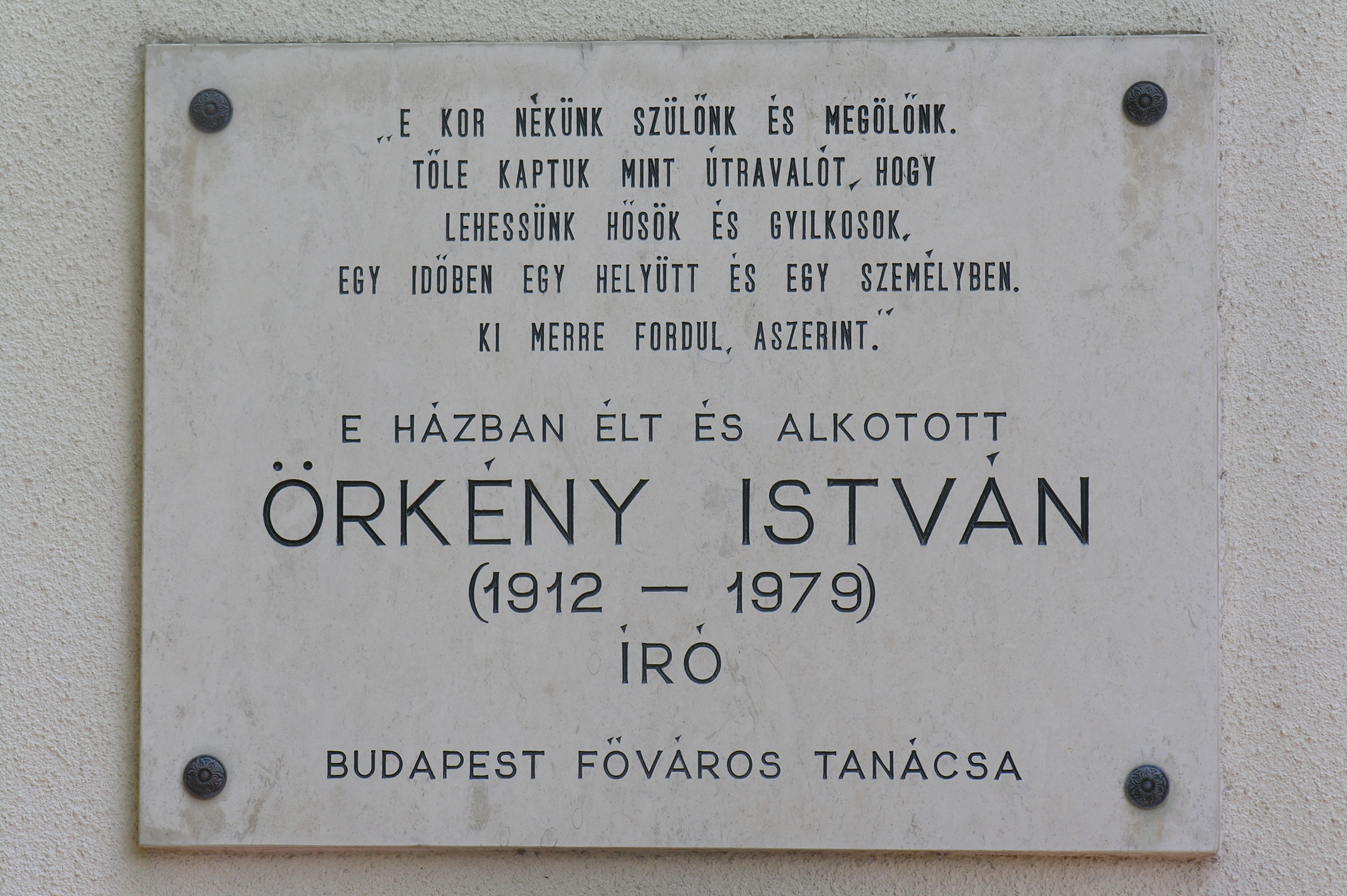 Commemorative plaque of István Örkény in Budapest District II, Pasaréti Street No 39